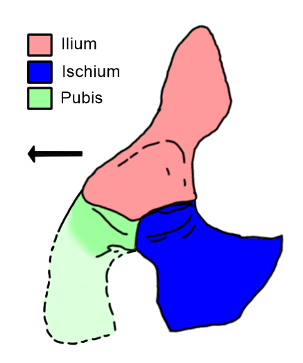 The left pelvis of Vancleavea campi, a Triassic archosauriform. Composited based on hip bones from specimens GR 138, GR 139, PEFO 34035, and PEFO 2427. Pubis is partially reconstructed, in a lighter shade of green, with its shape roughly based on that of Litorosuchus, Doswellia, and Chanaresuchus. Arrow indicates anterior direction.